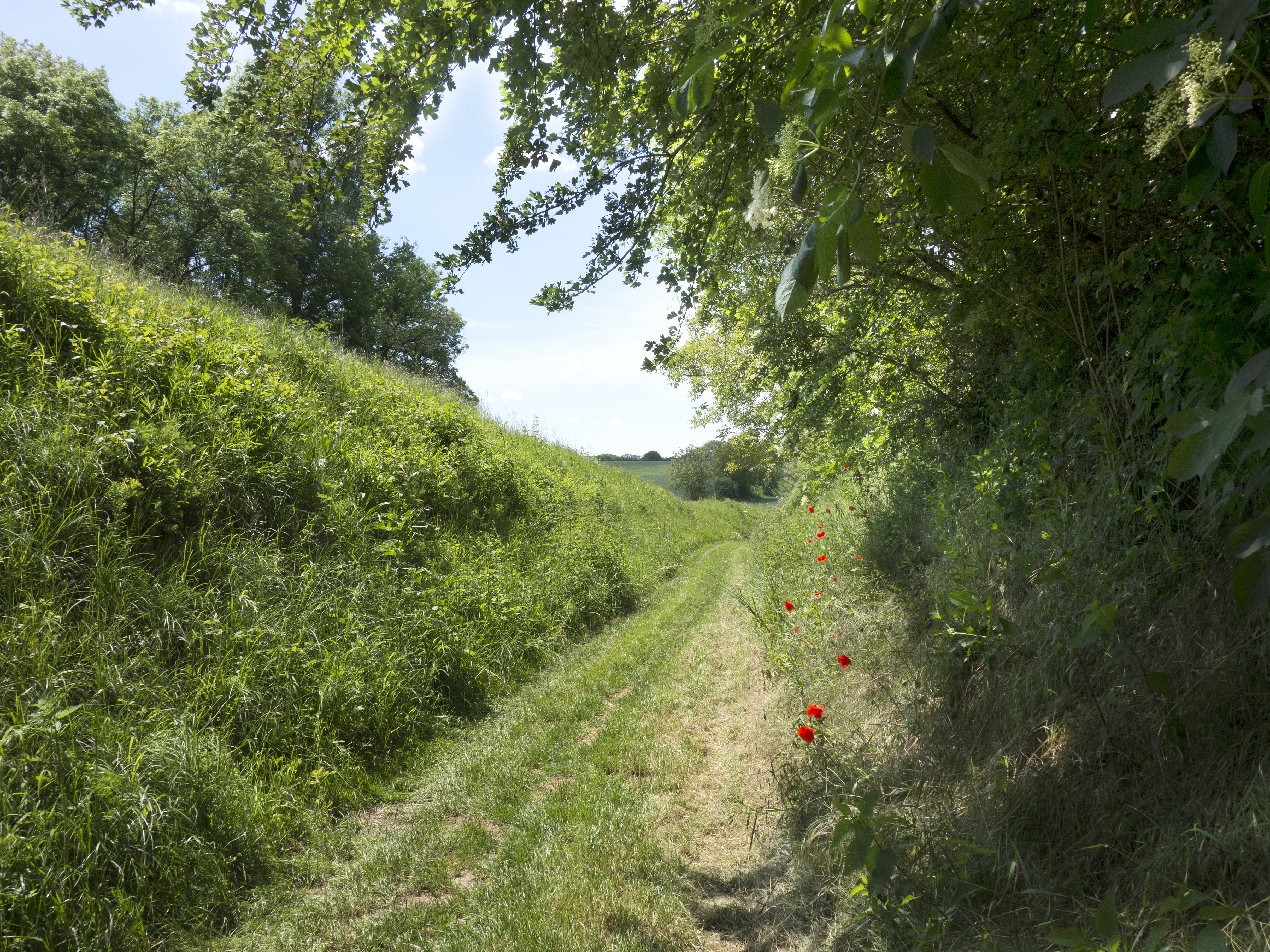 Entry to a sunken lane named "Kreuzhohle", a natural monument leading from Bruchsal to Unteroewisheim in the Kraichgau region, Baden-Wuerttemberg, Germany